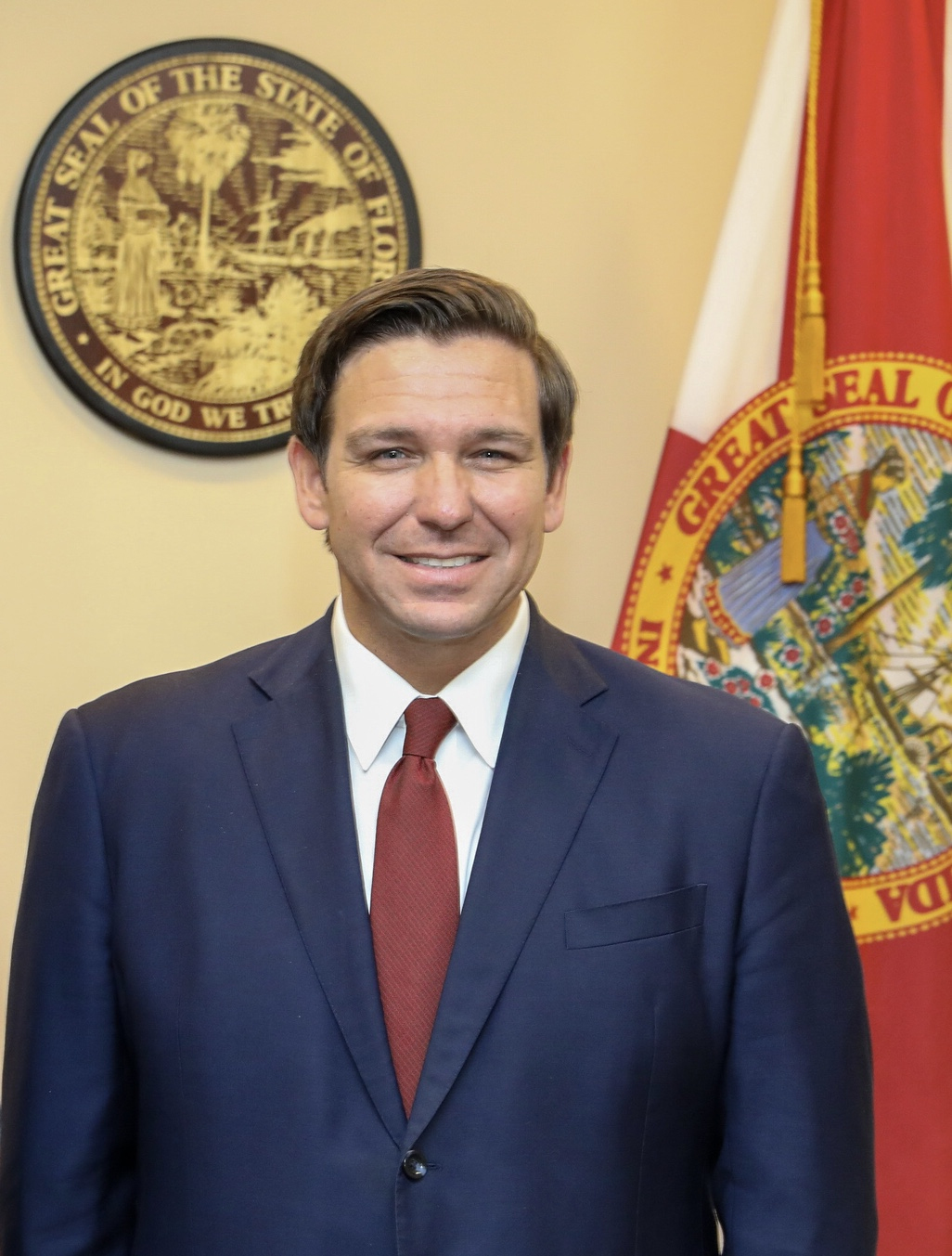 Photo 11/6/19 Gov. Ron DeSantis (R-FL)